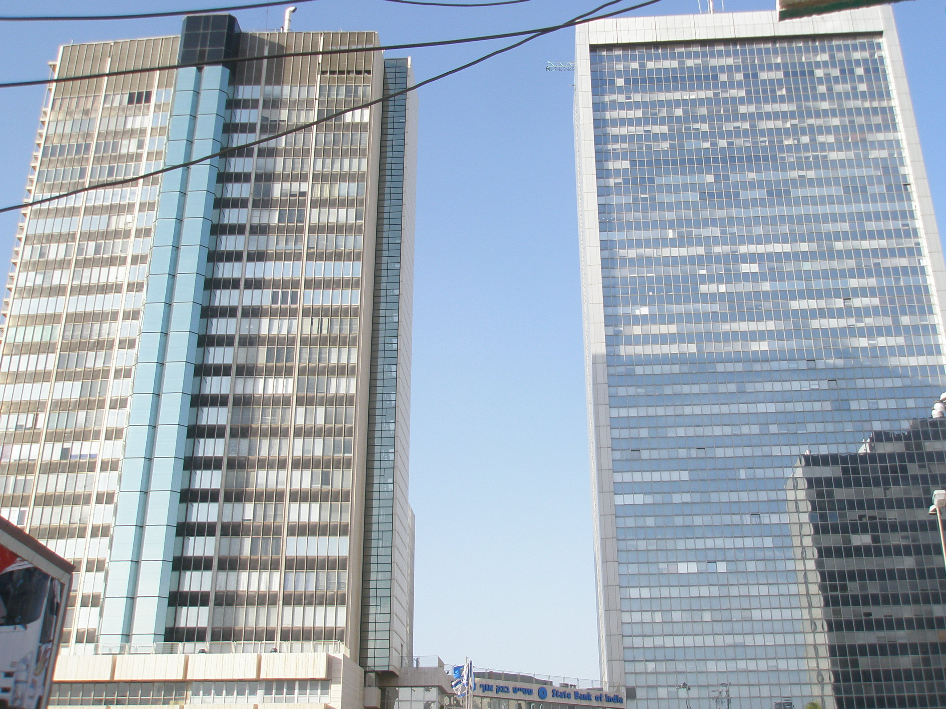 Two buildings of Israel Diamond Exchange: Shimshon (left) and Yahalom (right), Ramat Gan